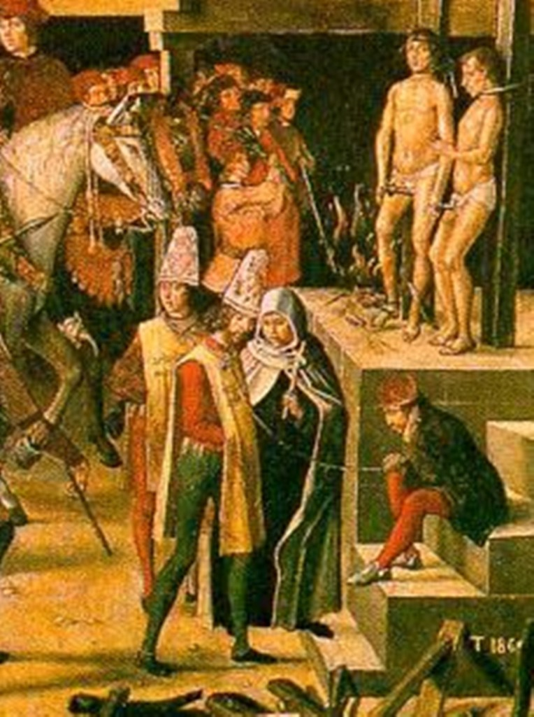 Saint Dominic presiding over an Auto-da-fe. From the sacristy of the Santo Tomás church in Ávila.